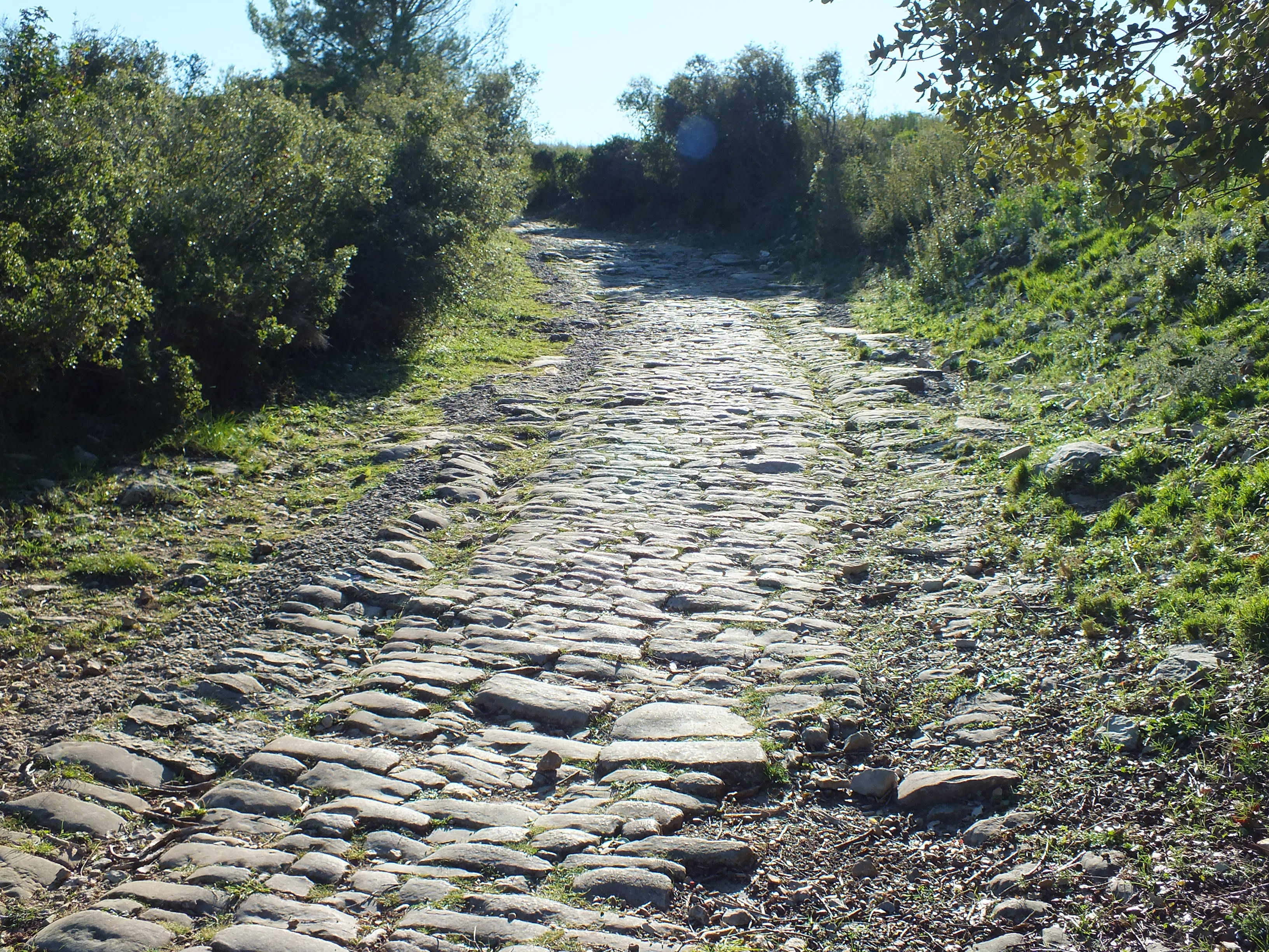 Ambrussum is a Roman archaeological site in Villetelle, near Lunel, Hérault, the Via Domitia which led over the Pont Ambroix, ran at the foot of the settlement. Leading from it is a paved road with visible traces of Roman cart tracks that runs from the south gate to the east gate. The paved road coming down from the basilica.